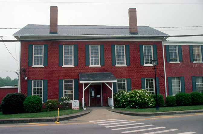 Old Dawson County courthouse in Dawsonville, Georgia, United States